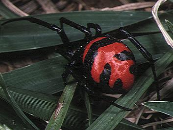 female Latrodectus elegans from Okinawa.